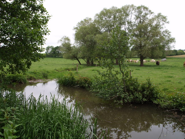 River Yeo The river is flowing to the right. Between the clump of trees and the cattle is a small pond, draining into the river on the left. Seen from near Down St. Mary Footpath 18.